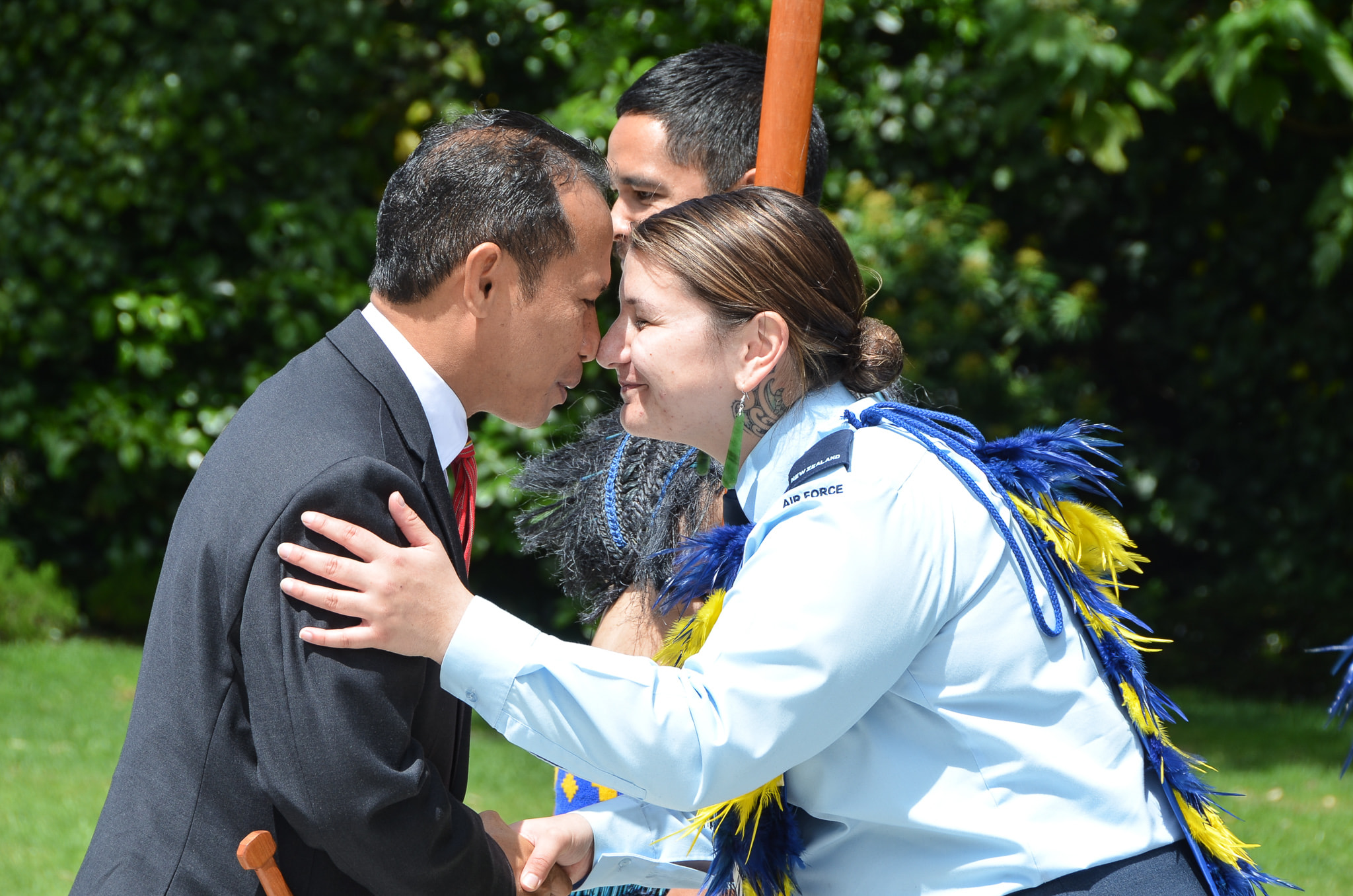 Timor-Leste’s Ambassador presents the Letters of Credence to the Governor-General of New Zealand H.E. Mr. Lisualdo Gaspar, Ambassador of Timor-Leste presented the Letters of Credence to Her Excellecy Right Honourable Dame Pasty Reddy, GNZM, QSO, Governor General of New Zealand in a solemn ceremony held in the Government House, Wellington, New Zealand on 12 November 2019. In the speech during the ceremony, Ambassador Lisualdo Gaspar conveyed the warm greetings from His Excellency President Dr. Francisco Guterres Lú Olo to the Governor General, the Government and the people of New Zealand and best wishes for the prosperity of New Zealand and the long lasting friendship between the two countries. Timorese Ambassador also acknowledged with gratitude for the continued support provided by New Zealand to Timor-Leste since 1999 until today. He also affirmed the commitment of the Ambassador to work with the Government of New Zealand to further improve and enhance the very friendly and close relationship between Timor-Leste and New Zealand. Similarly, in her speech, Her Excellency Governor-General of New Zealand conveyed the best wishes and thanks to His Excellency President Lú Olo and restated the commitment of New Zealand to continue assist the development of Timor-Leste. The Governor General of New Zealand expressed the admiration for the strength, courage and tenacity of Timorese leaders and people during the long struggle for independence, as well as the sacrifices so many Timorese made for cause of independence. Furthermore, H.E. Dame Pasty Reddy noted with pleasure the remarkable achievement of Timor-Leste in terms of the stability, security and vibrant democracy in such a short time. During the presentation of the Letters of the Credence, Ambassador Lisualdo Gaspar was accompanied by his spouse Judith Vital Soares and First Secretary of the Embassy Mr. Armindo Simões. He is the second resident Ambassador of Timor-Leste to New Zealand after Ambassador Cristiano Costa.